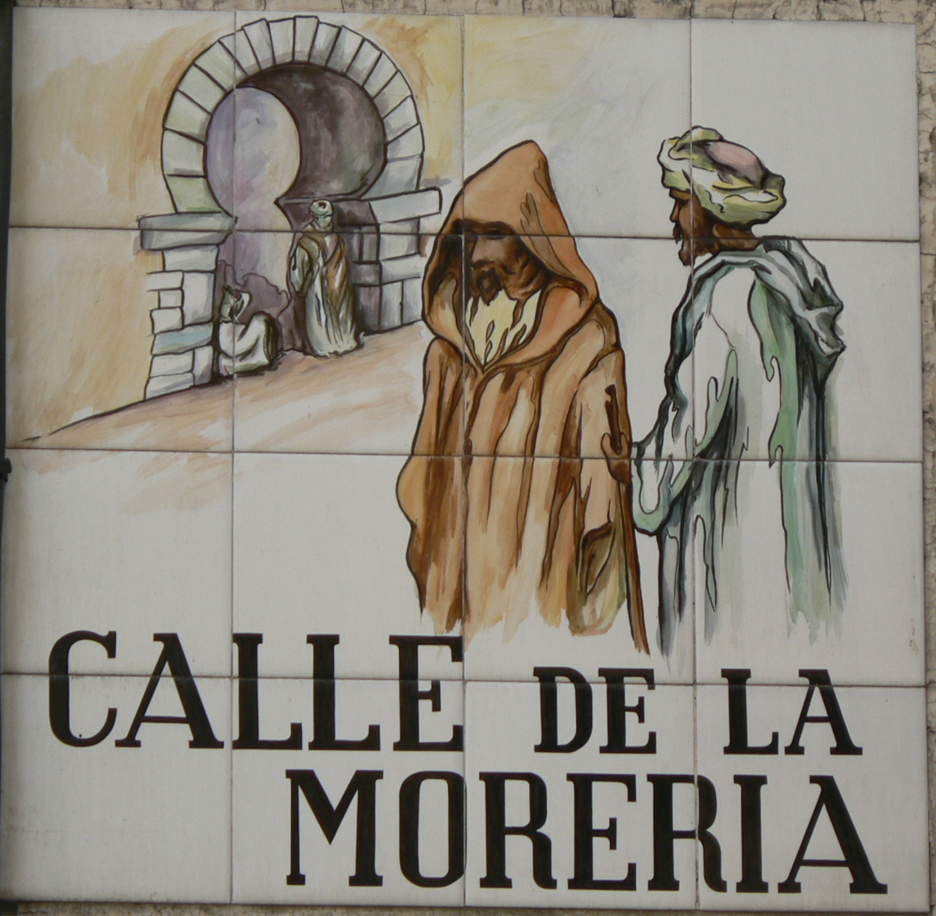 Sign of Calle de la Morería (street, Centro district) in Madrid (Spain).